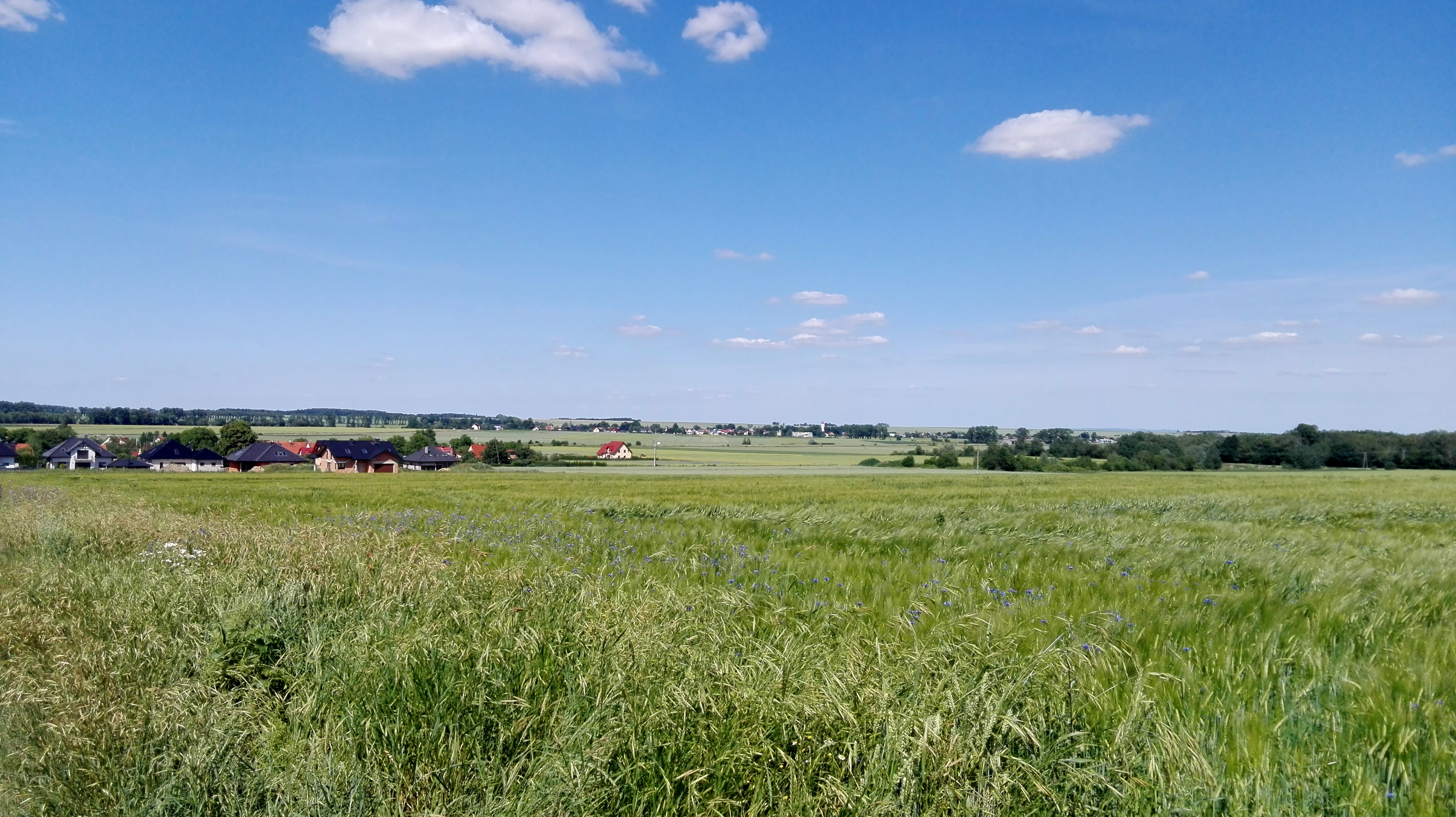 Karola Miarki Street in Prudnik